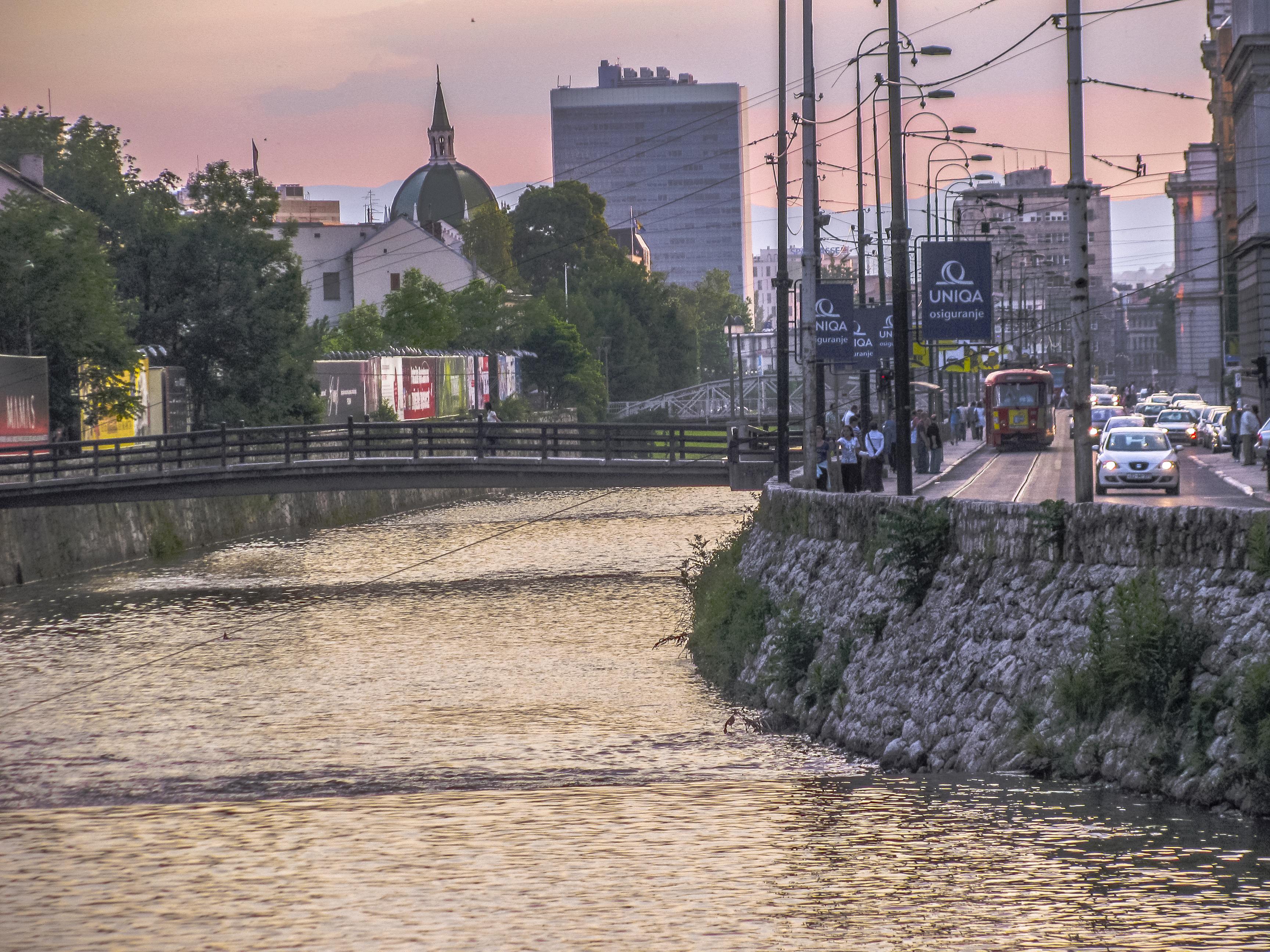 Miljacka River in sunset, Sarajevo